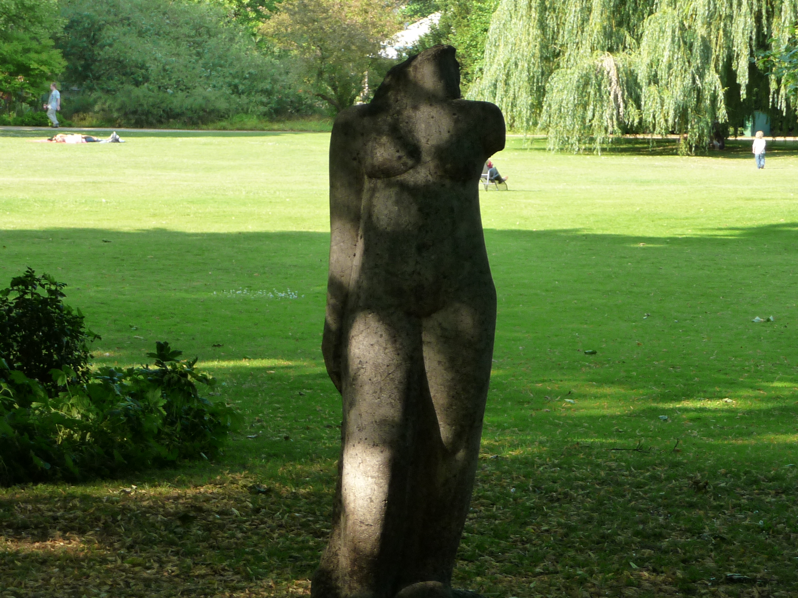 Sculptures in Mannheim